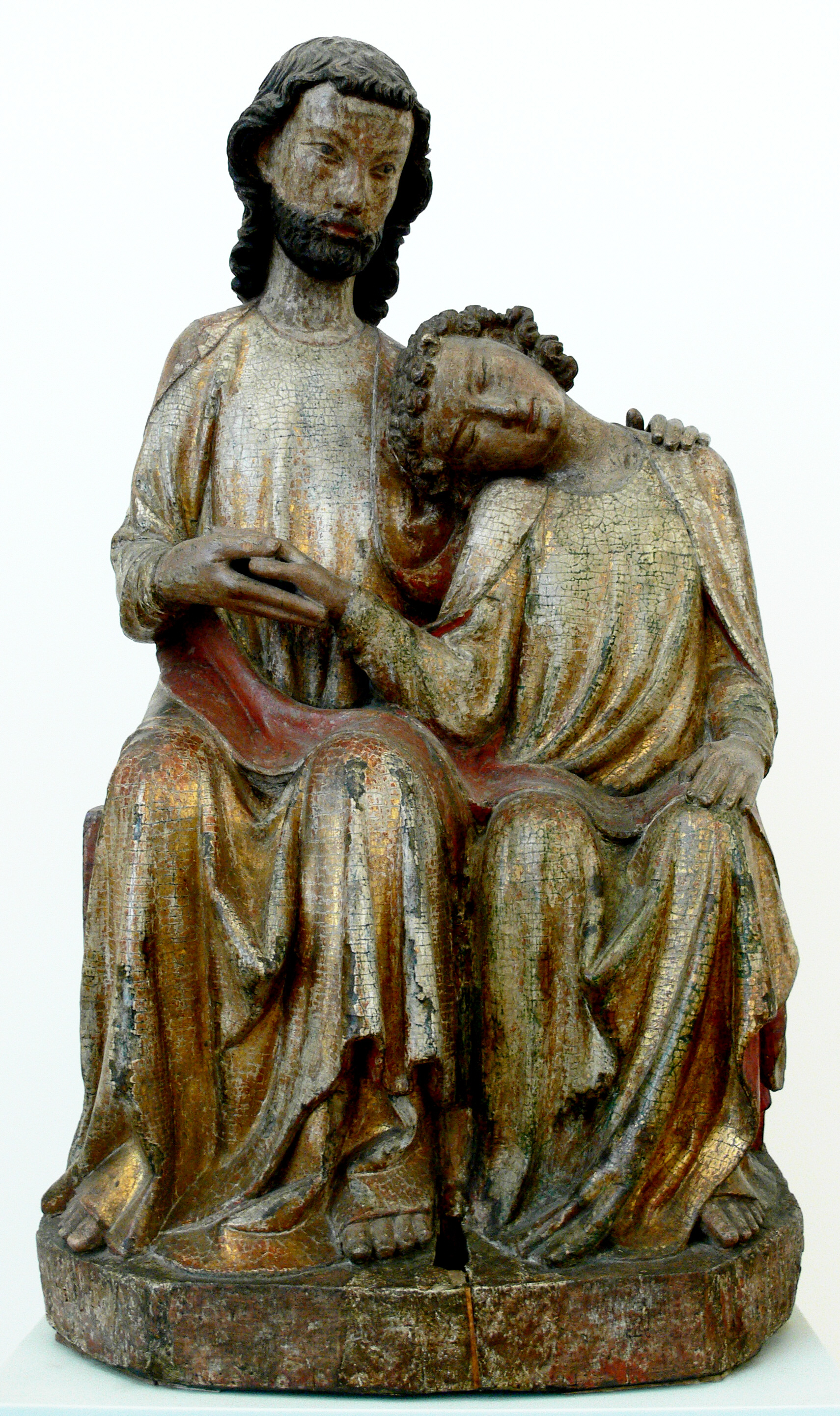 Der Apostel Johannes an der Brust Christi (Johannesminne), Bodenseegebiet, um 1310Eichenholz, alte Fassung; angeblich aus dem Augustiner-Chorfrauenstift Inzigkofen John the Apostle resting on the bosom of Christ, Lake Constance region, c. 1310Oakwood, old colouring; presumably from the Augustinian priory in Inzigkofen Bode-Museum Berlin (Skulpturensammlung Inv. 7950), erworben 1909